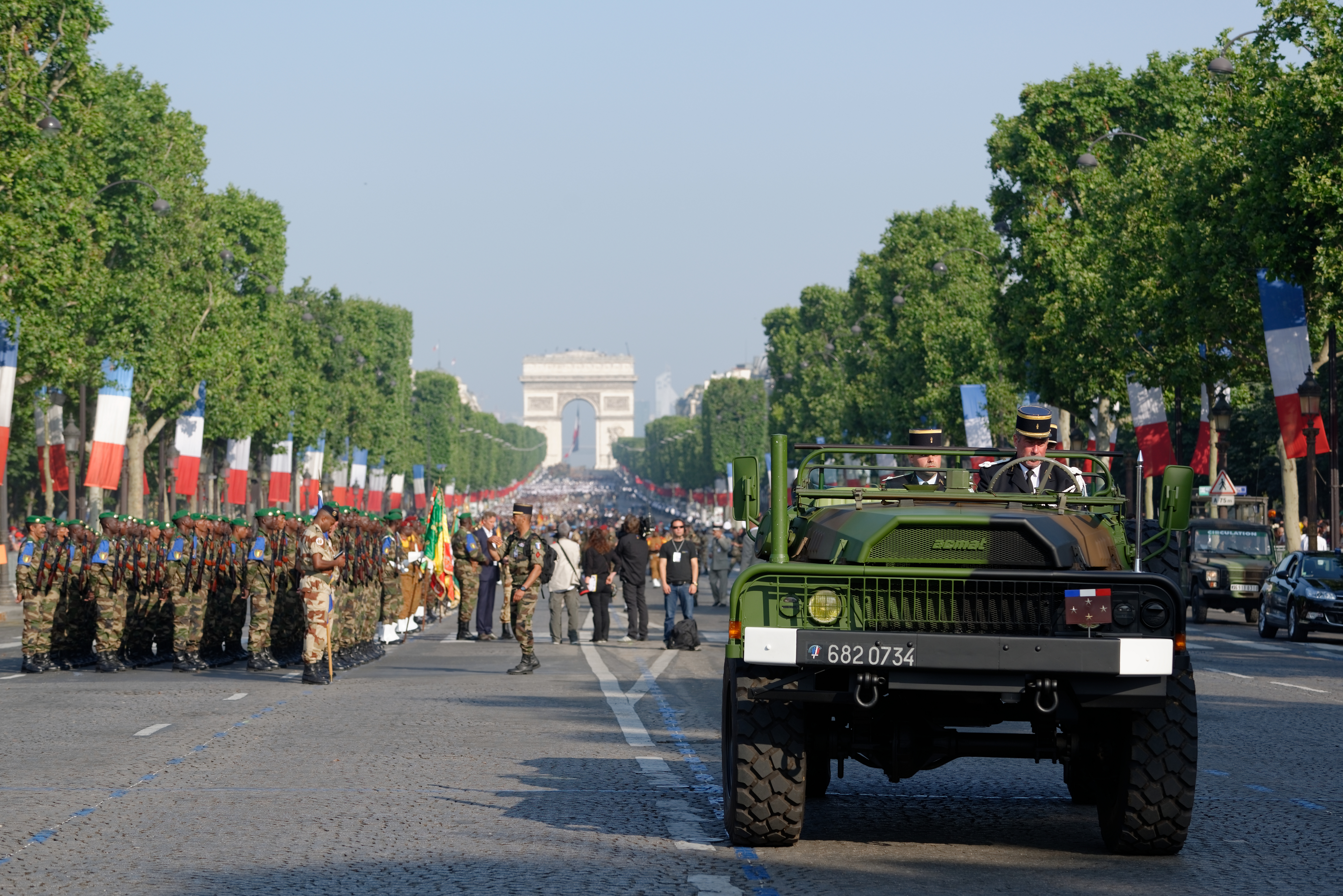 Troops on the Champs Elysees before the Bastille Day 2013 military parade in Paris.